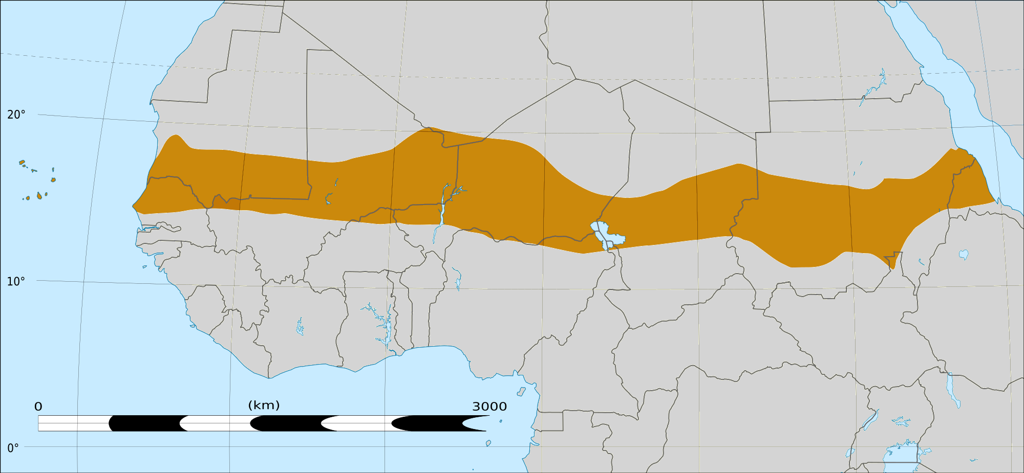 Map of Africa, with the Sahel highlighted in orange. This is roughly the African land area between the lines of 200mm (north) and 600mm (south) mean 20th century annual rainfall. This is limited to land areas directly to the south of the Sahara desert and including the islands of Cape Verde, but not including other areas in Africa with the same rainfall statistics. This is one, but not the only, definition of the Sahel region.